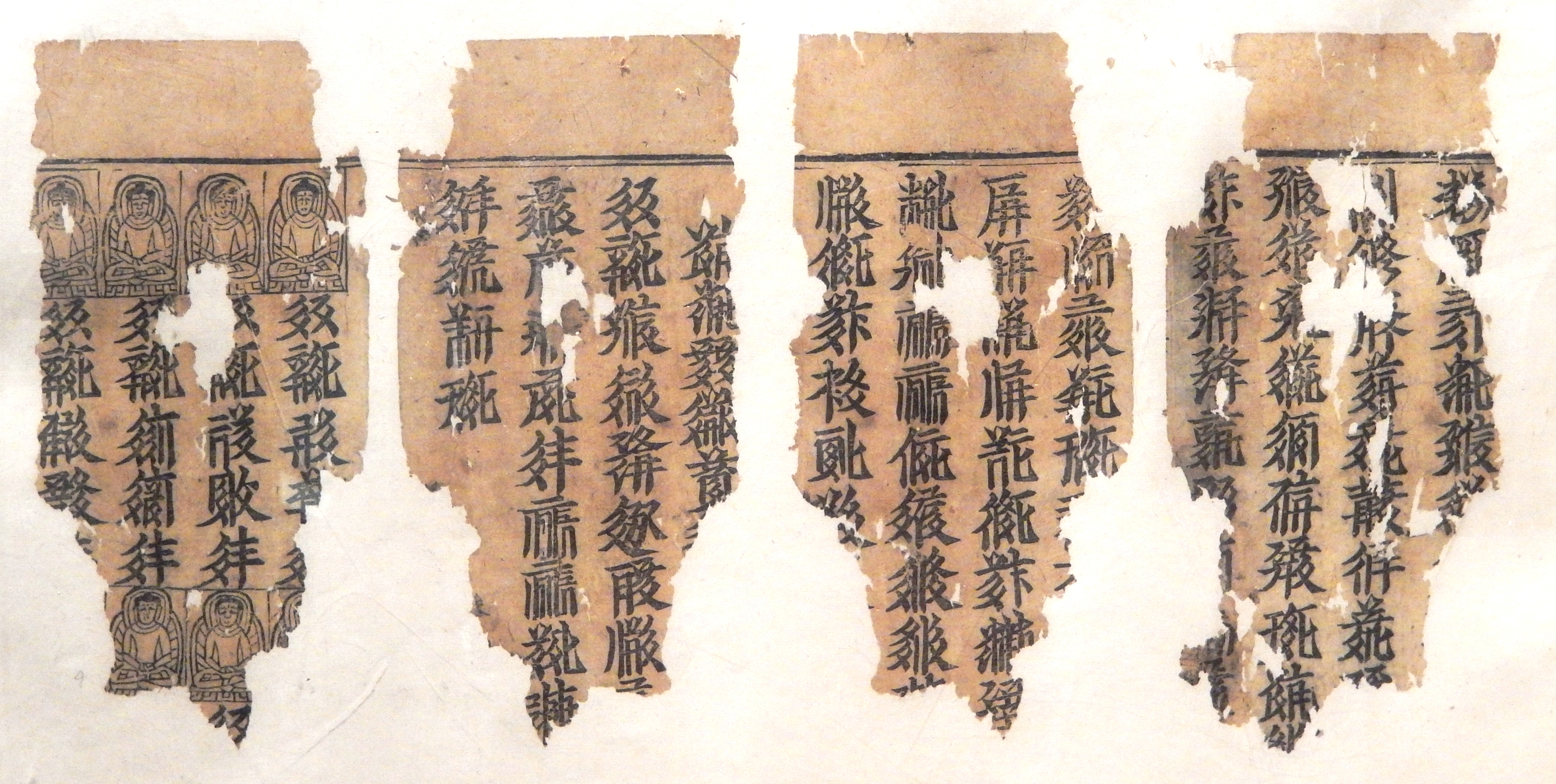 Pieces of the Tangut version of the Thousand Names of the Buddha of the Present (現在賢劫千佛名經) [N11·003], found in 1987 from a brick stupa base on the north side of the 108 stupas at Qingtongxia, Ningxia, China. Now held at Ningxia Museum in Yinchuan.